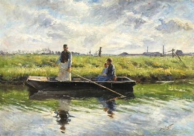 Het pontje